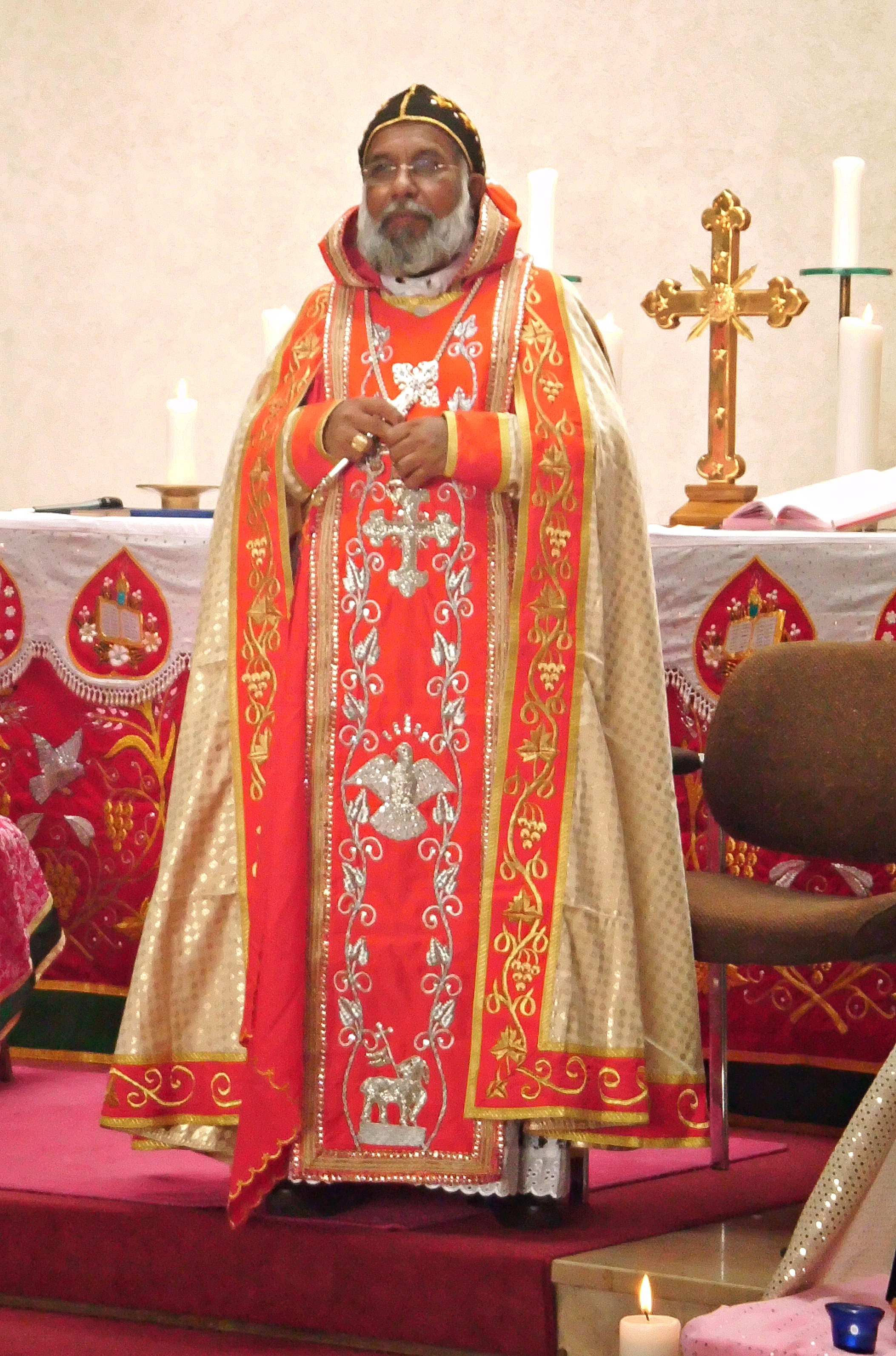 Kardinal Baselios Cleemis Thottunkal, Frankfurt, 2015